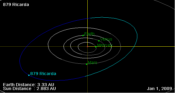 879 Ricarda orbit, and his position on 01 Jan 2009 (NASA Orbit Viewer applet)